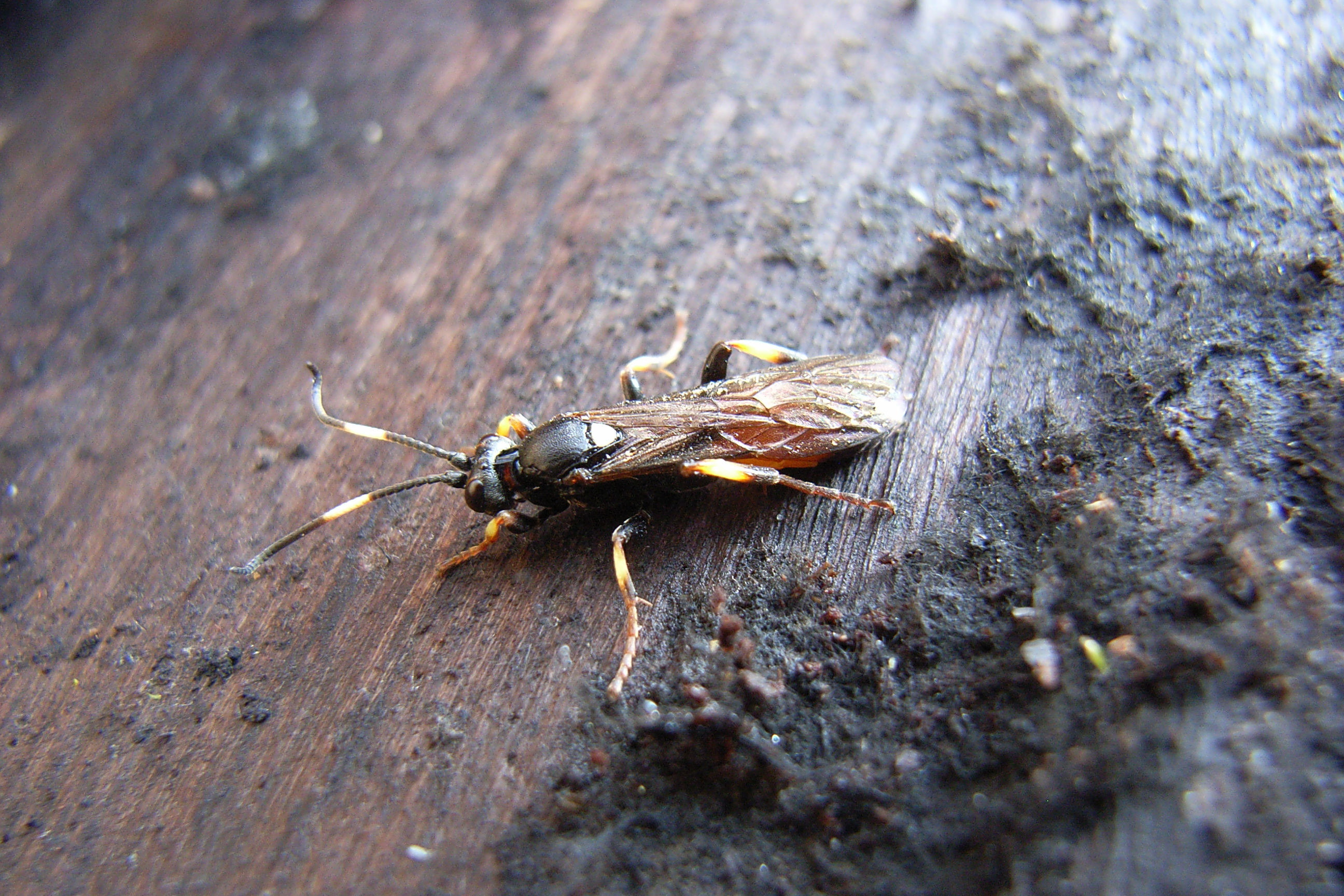 Ichneumon sp under bark of rotten Populus sp. in February in Southern Germany